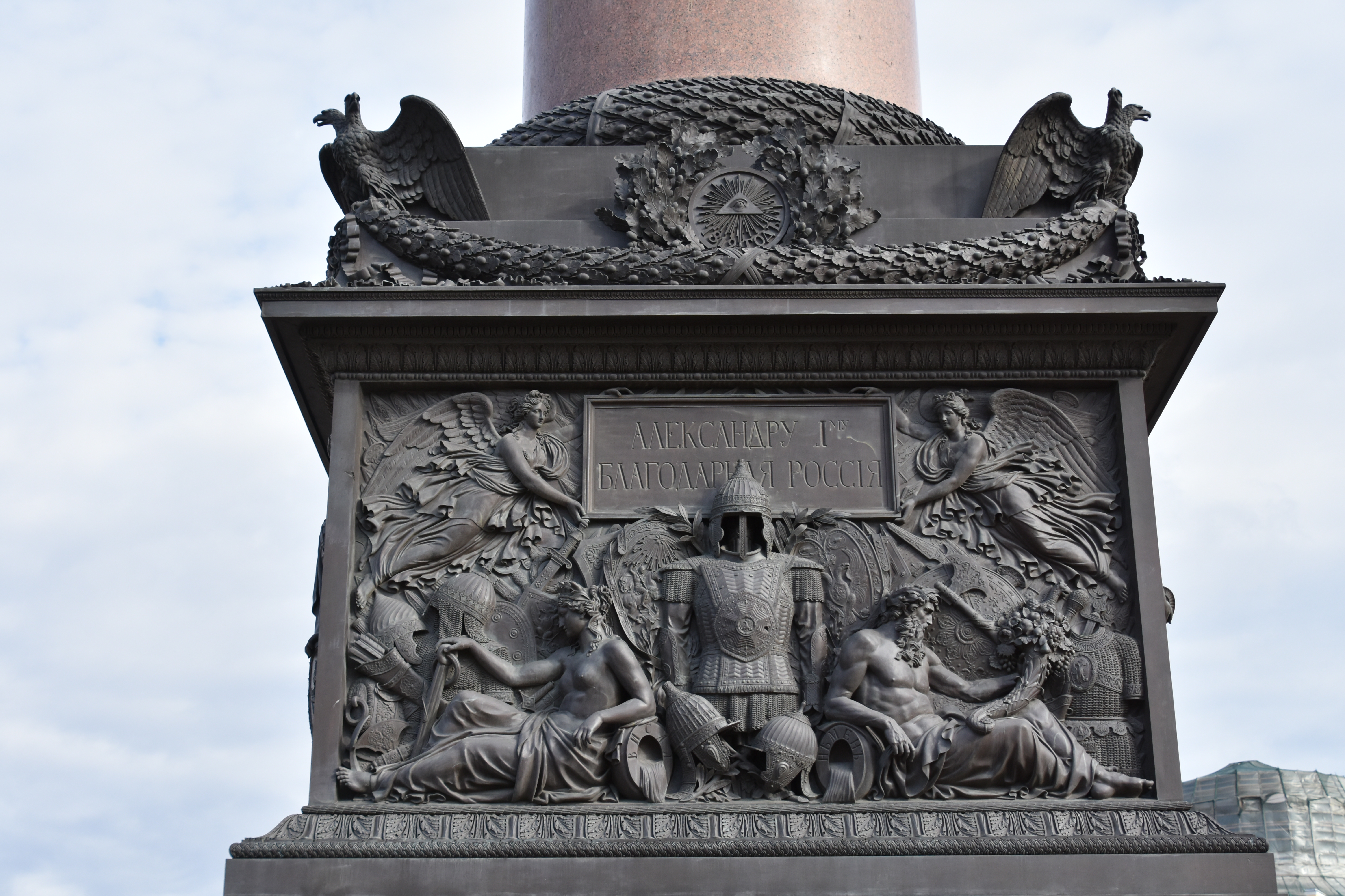 Base of the Alexander Column, Palace Square, St. Petersburg